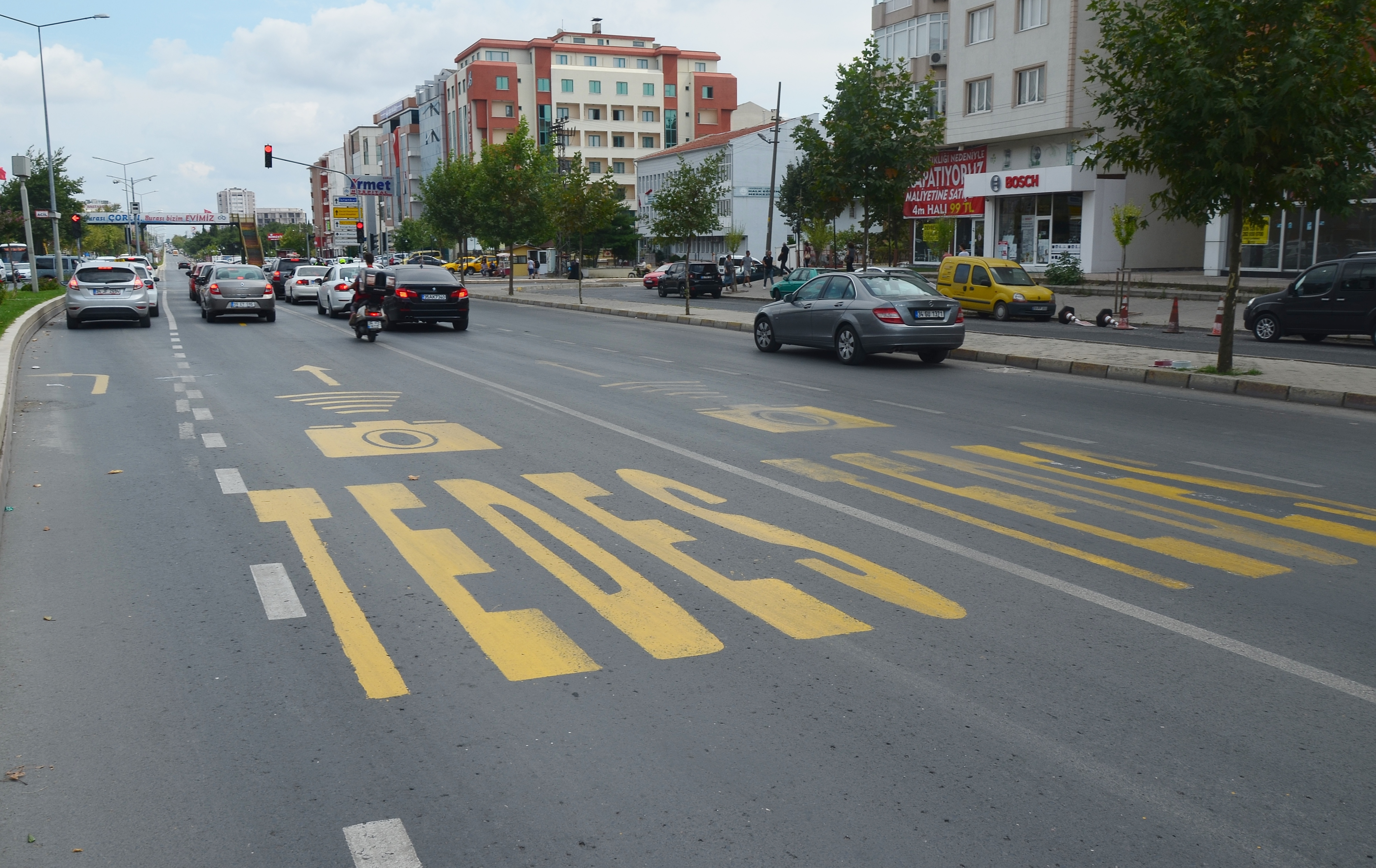 Road marking for TEDES ("Trafik Elektronik Denetleme Sistemi" for "Electronic Traffic Control System") on the Salih Omurtak Boulevard in Çorlu, Tekirdağ Province, Turkey